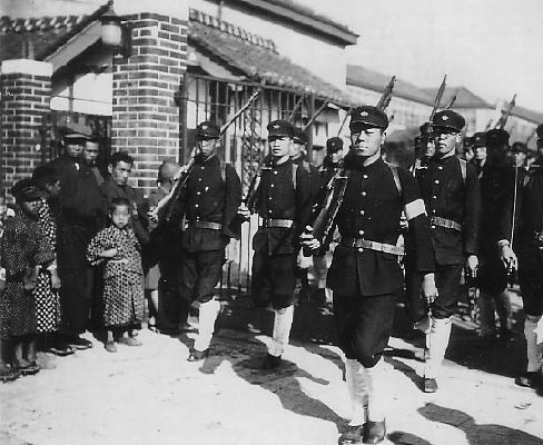 Military training courses at Osaka Municipal Commercial College